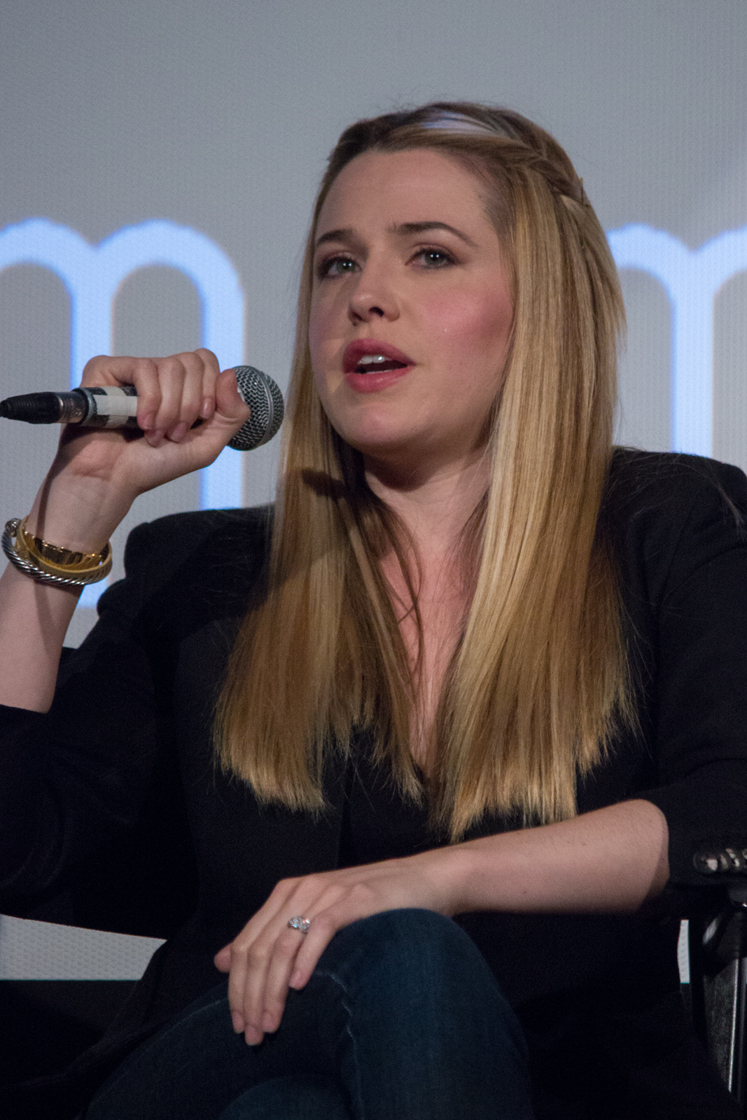 Actress Majandra Delfino at the ATX TV Festival 2014 for the TV show Roswell